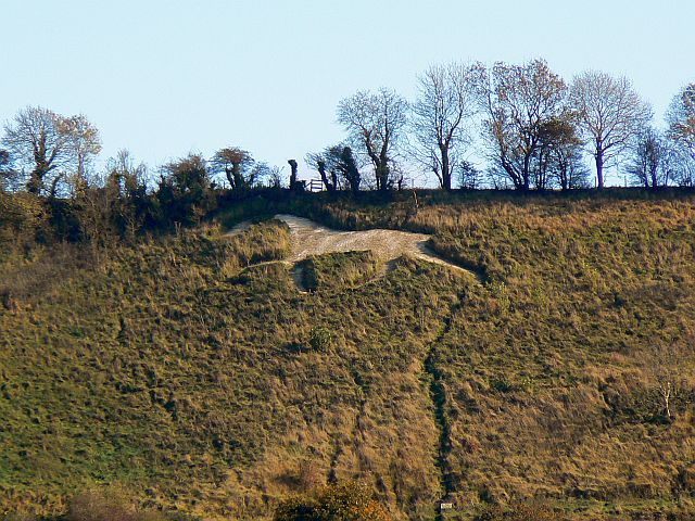 Broad Town White Horse, from Christ Church, Broad Town. The horse is a bit grubby by comparison with its neighbour at Hackpen 477326 There's some information here about this chalk figure and the other Wiltshire white horses